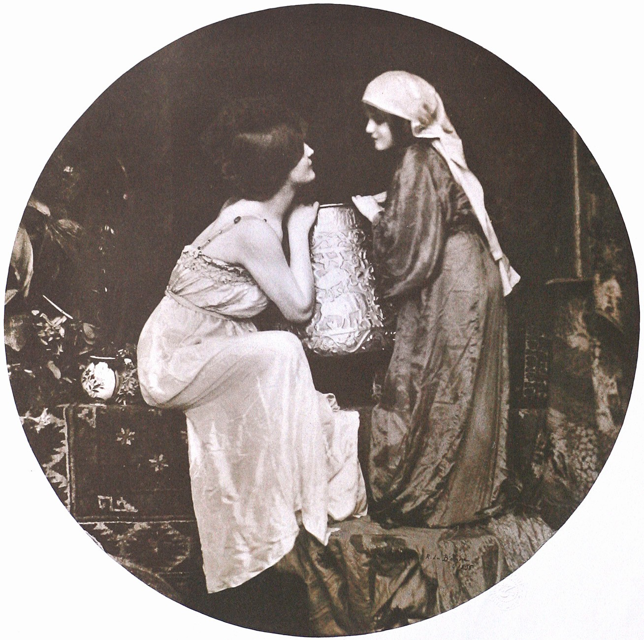 Soeurs